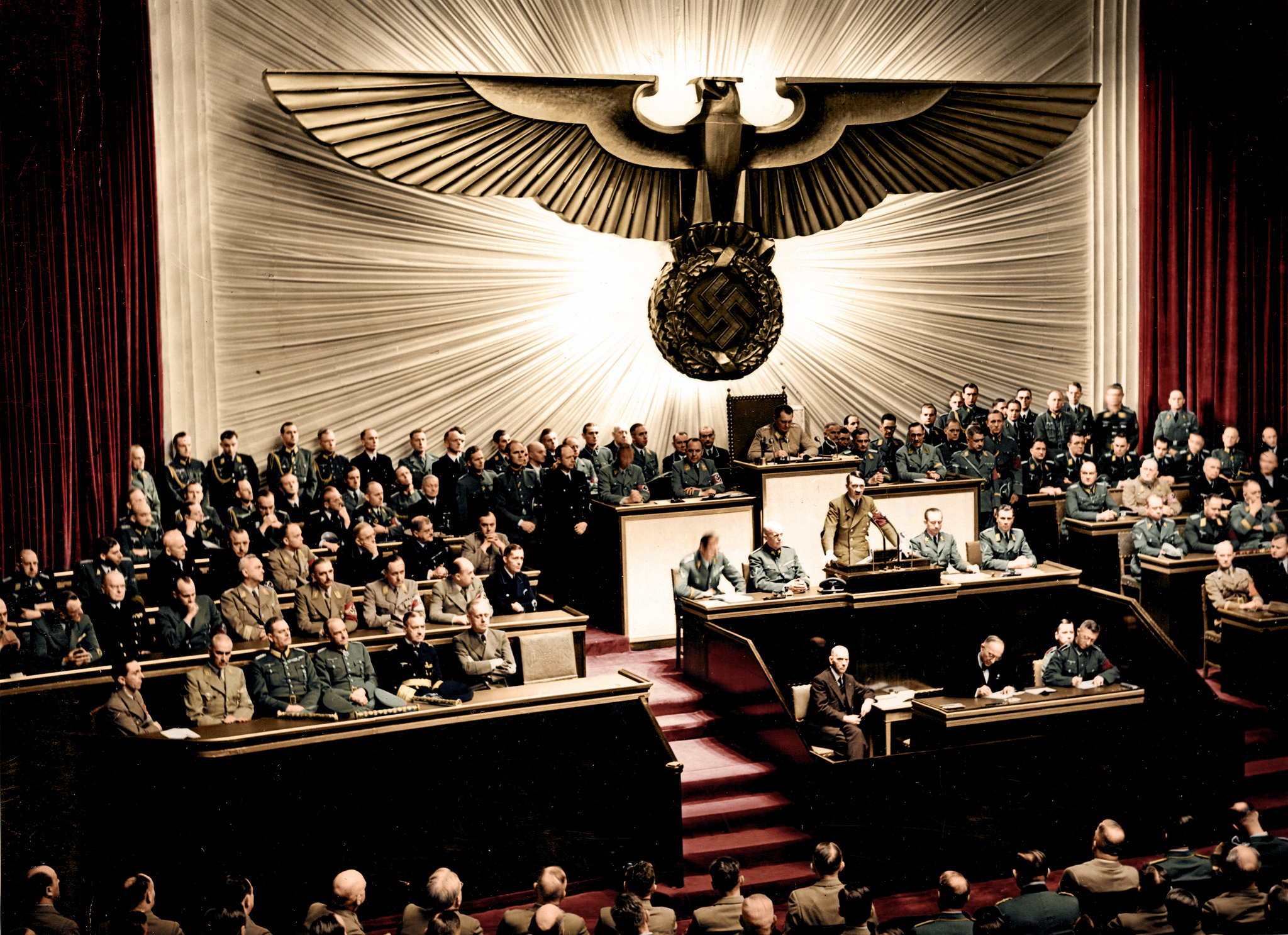 Adolf Hitler delivers a speech at the Kroll Opera House to the men of the Reichstag on the subject of Roosevelt and the war in the Pacific, declaring war on the United States. Next to Hitler in the government benches (from right to left) are Joachim von Ribbentrop, Erich Raeder, Walther von Brauchitsch, Wilhelm Keitel, Wilhelm Frick and Joseph Goebbels. In the second row (from right to left) are Lutz Graf Schwerin von Krosigk, Walther Funk, Richard Walther Darré, Bernhard Rust, Hanns Kerrl, Hans Frank, Julius Dorpmüller, Arthur Seyss-Inquart and Fritz Todt. In the third row (from right to left) are Alfred Rosenberg, Otto Meißner and Johannes Popitz.